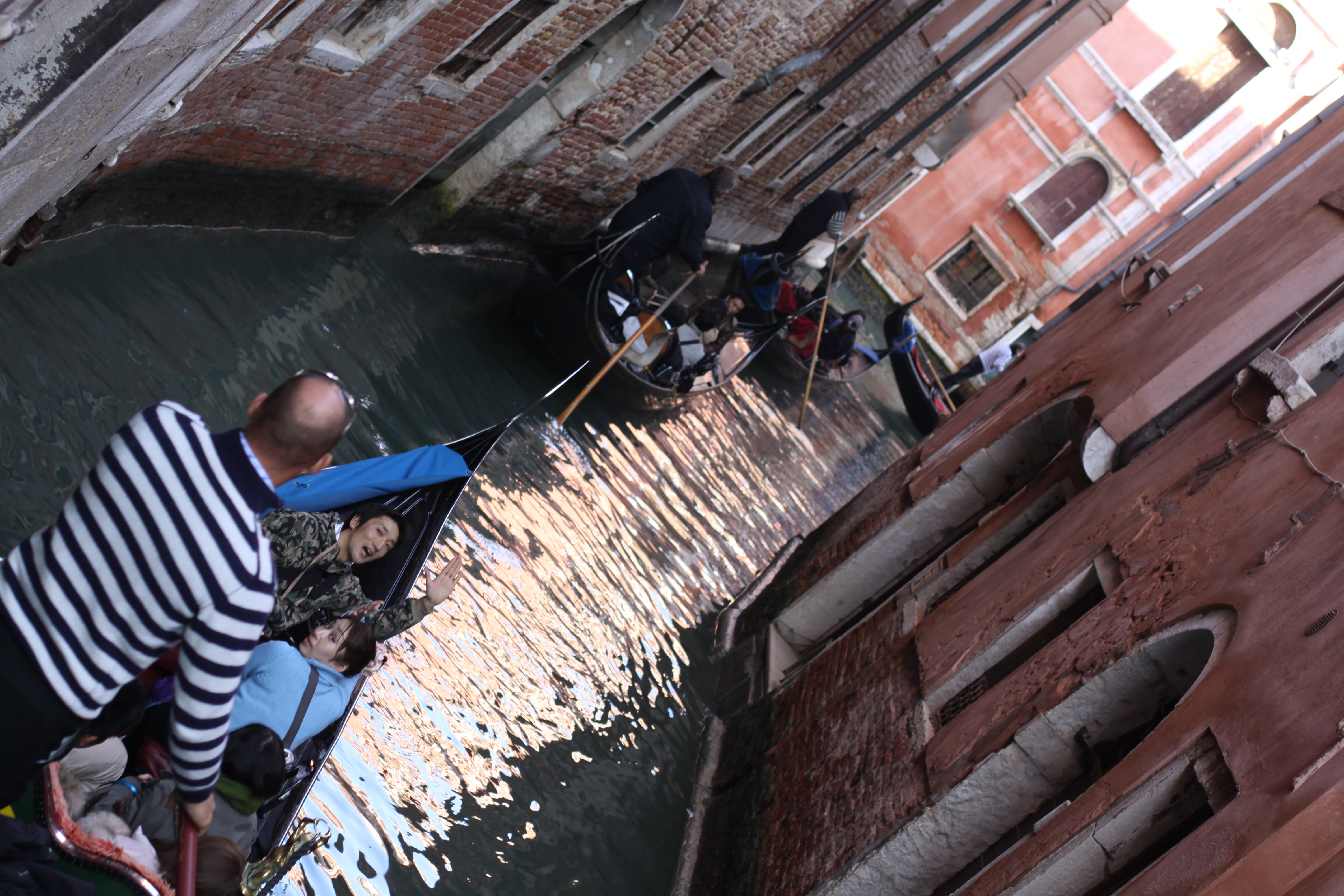 Traffic jam in Venice